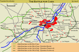 Map, showing the Battle for Caen Made by Wikipedia use John N. under the Creative Commons 2.0 Germany license ( and translated into English by myself (rwhealey) on 8/21/06. Verified source: Max Hastings, Overlord: D-Day and the Battle for Normandy, Vintage Books USA; (2006) [1985], ISBN 0-30727-571-X, pages 137–239.